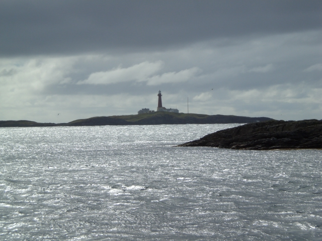 Røst, Norway